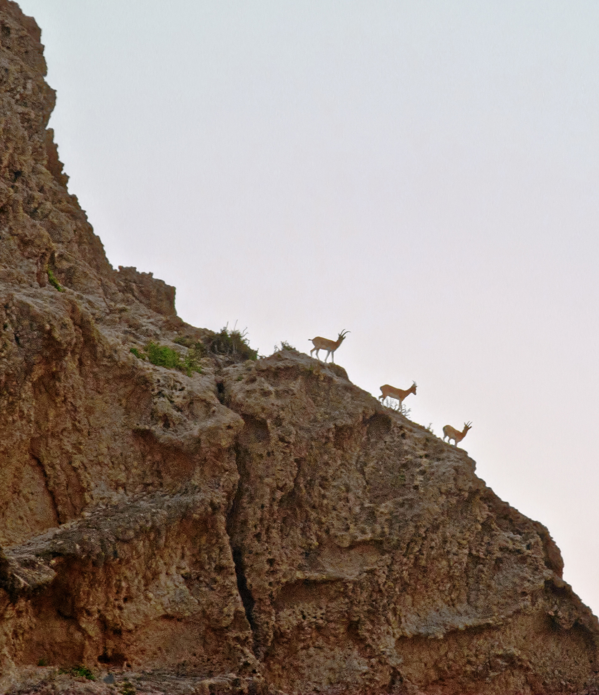 Kirthar park hill and goat